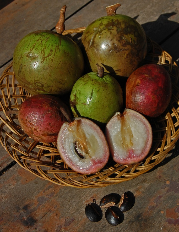 Chrysophyllum cainito fruits from several cultivars. Lumajang, East Java, Indonesia